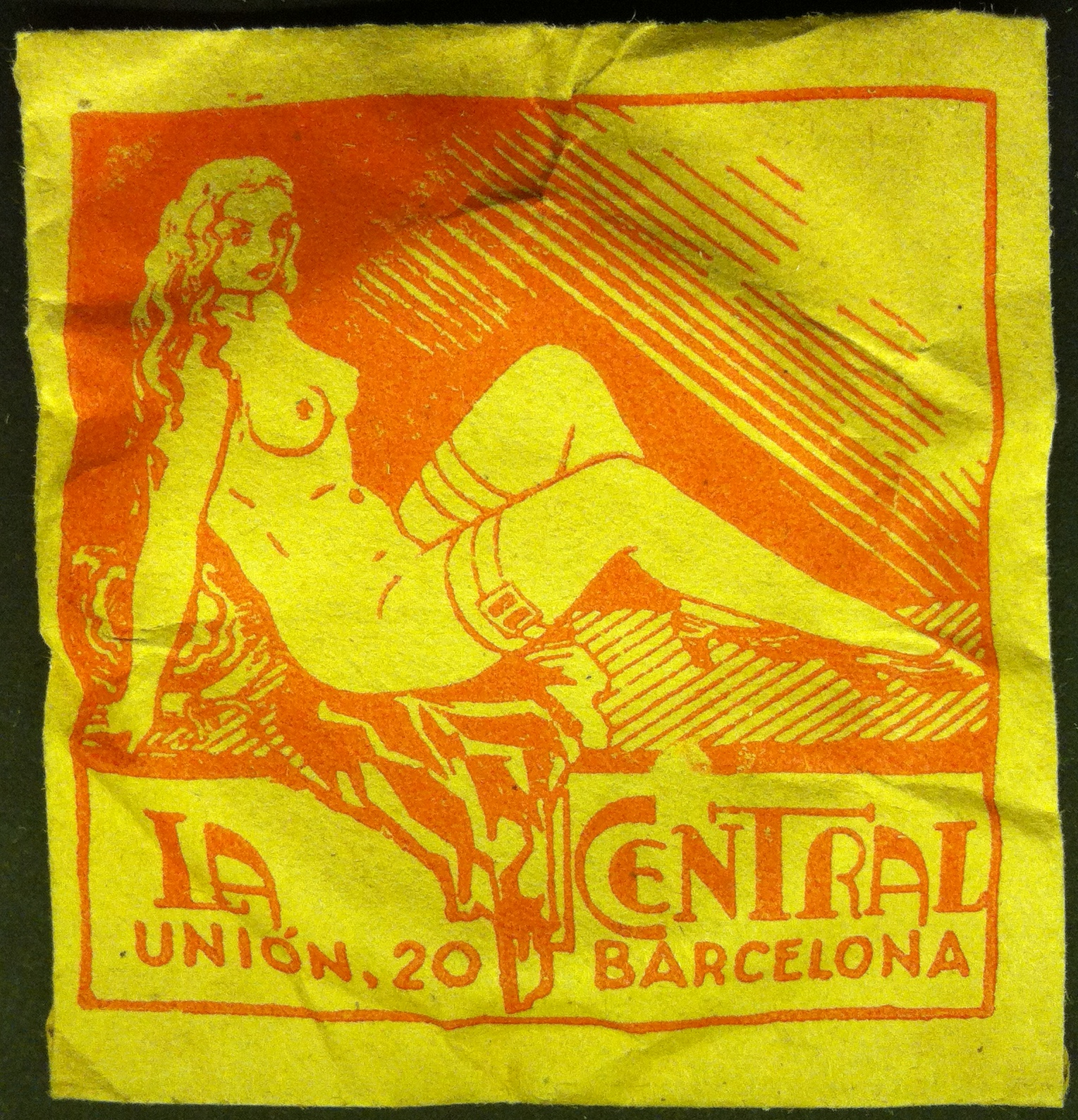 Pictures of an exhibit about The Paral·lel avenue in Barcelona that took place in CCCB cultural center between october 2012 and feb 2013. El Paral·lel emerges from the project to extend the city designed by Ildefons Cerdà. From its birth, a series of contradictory urban planning regulations facilitated the appearance of ephemeral buildings and the conversion of this street into a dense area of leisure and entertainment. The result was a leisure district for the masses, perfectly comparable to those existing in other major European urban agglomerations at that time, but that immediately became a genuine cultural expression of the social and political conflict that characterised the Barcelona of the early 20th century. El Paral·lel generated shows with perfectly differentiated contents and formats, made up by the audience and the artists. This exhibition will explain, therefore, why a new entertainment area emerged in the city, leading the weight of the theatrical axis to move from the Plaça Catalunya-Passeig de Gràcia area to the Nou de la Rambla-Paral·lel area.